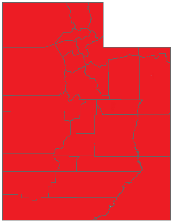 This is a county-view map of Utah with every county shaded red to indicate that the Republican candidate won every county in the state.